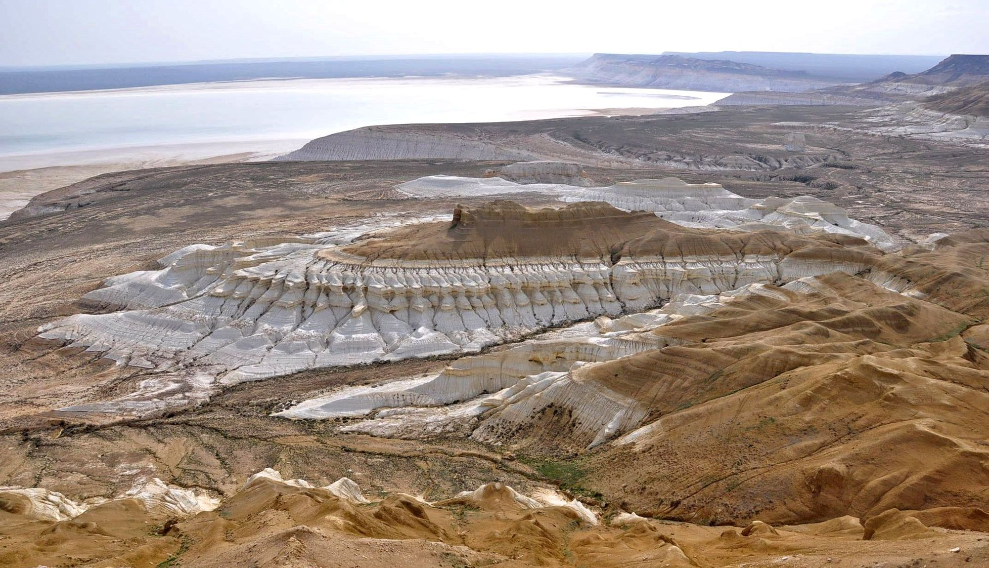 Paleogene clays. Western Kazakhstan